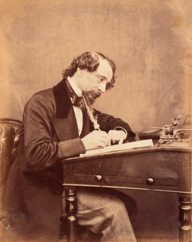 Cropped from photograph of Charles Dickens